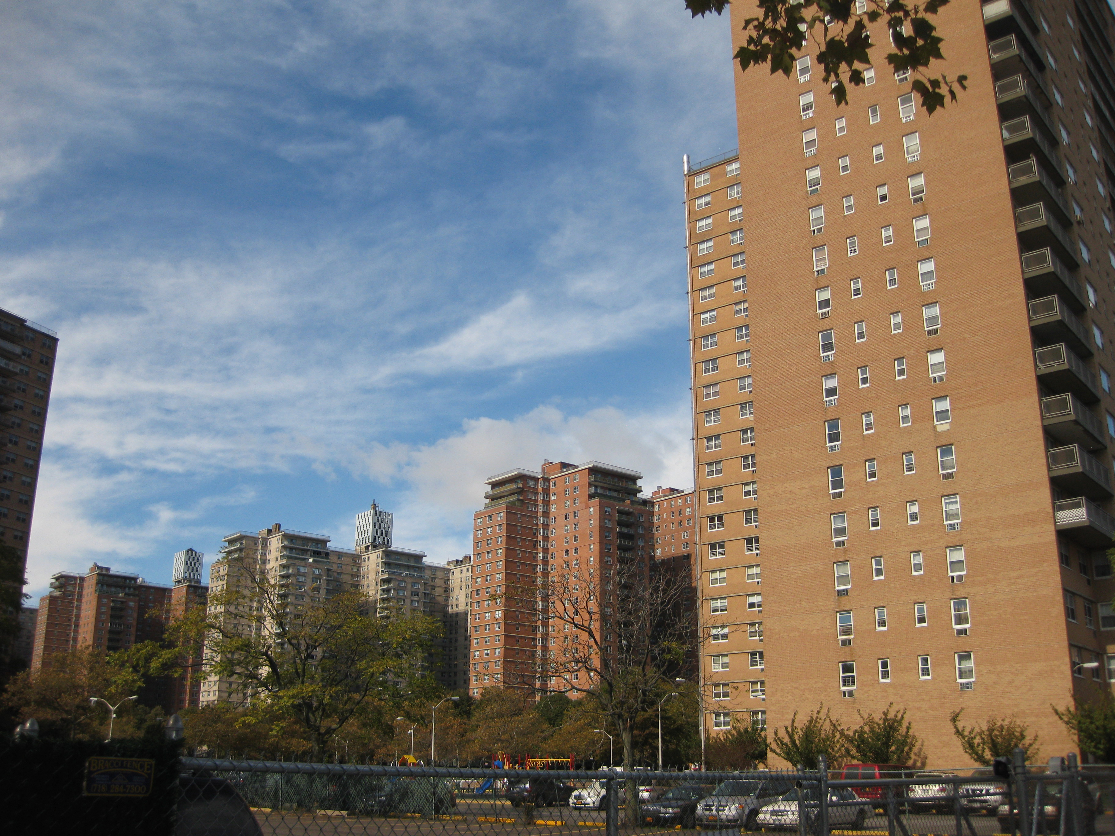 Coney Island, New York